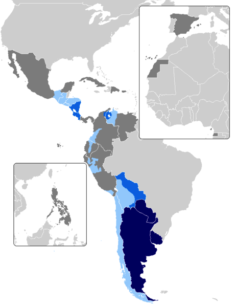 Map of countries with voseo phenomena: primary spoken and written form primary spoken, but not in written form 'voseo' coexist with 'tuteo' Spanish-speaking country, voseo non-existent